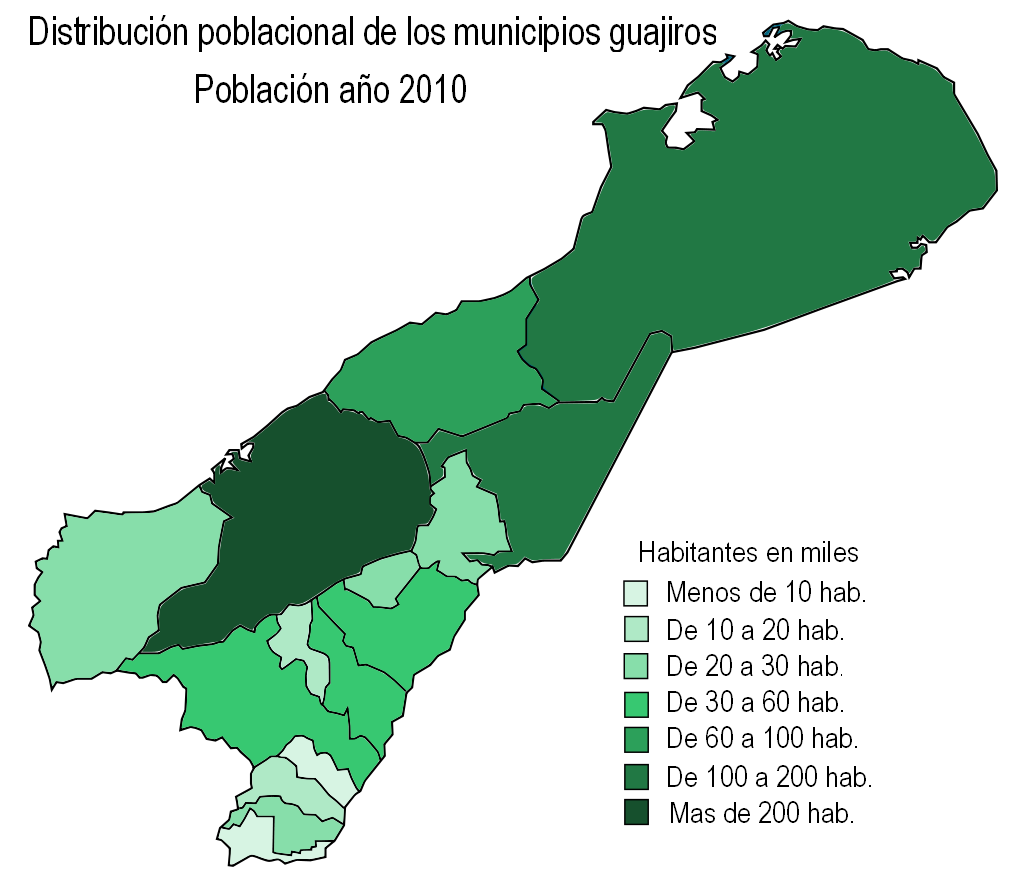 Population of La Guajira